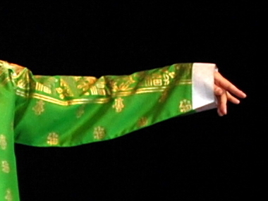 The white cloth called geodeulji on the dangui, a ceremonial upper garment in hanbok, traditional Korean attire. Bailarina de Corea.